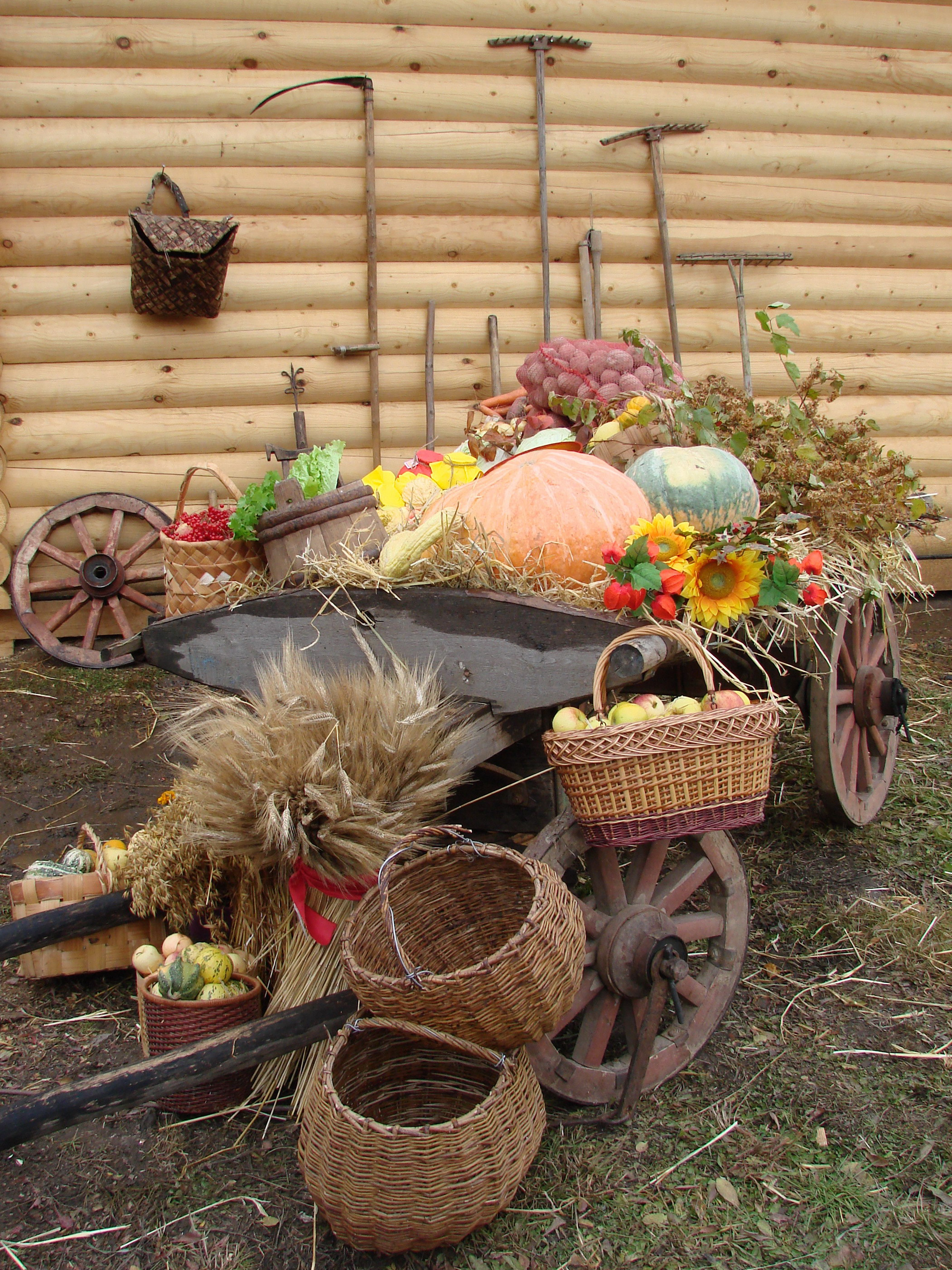 Russia, Vologda, Exhibition-Fair «My house», Harvest